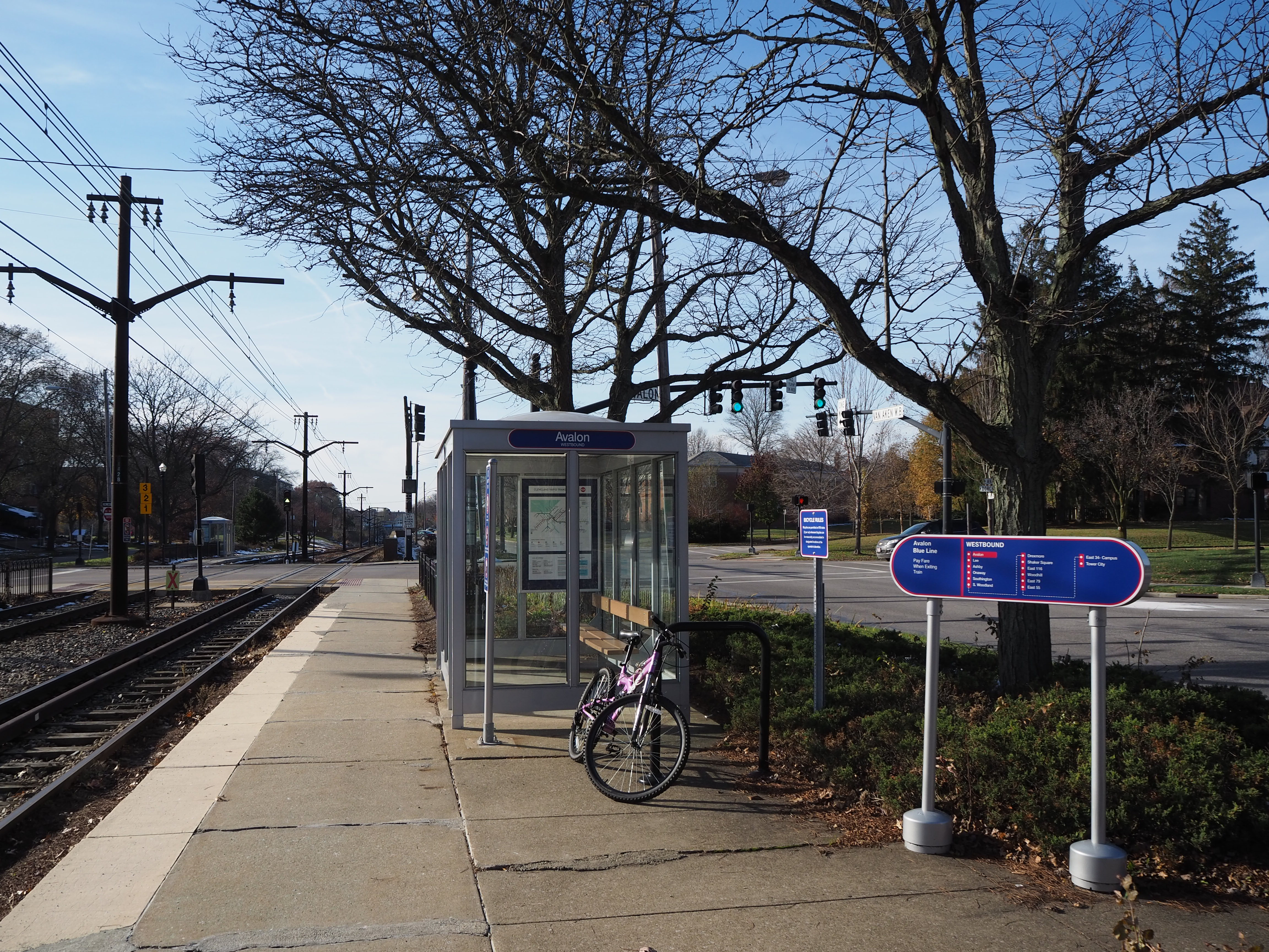 A shelter and route sign on the inbound platform at Avalon Station on the Cleveland RTA Blue Line